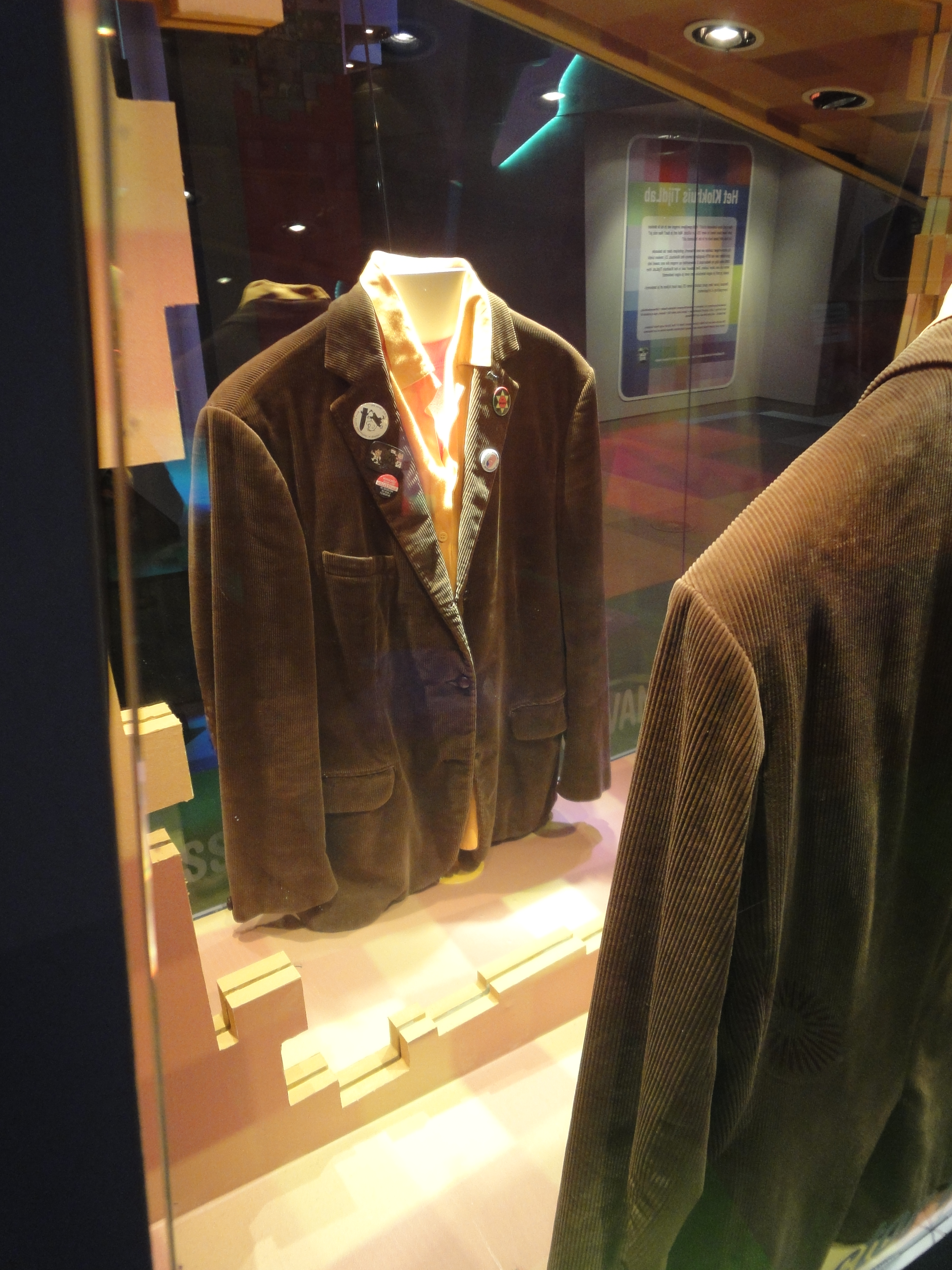 Costume of "prof. Fetze Alsvanouds" of Klokhuis fame